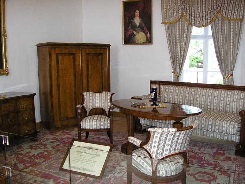 The Mátra Museum in Gyöngyös, Hungary